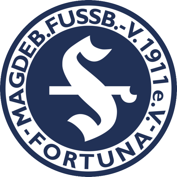 Logo of former german football club FV Fortuna Magdeburg (1911-1945)